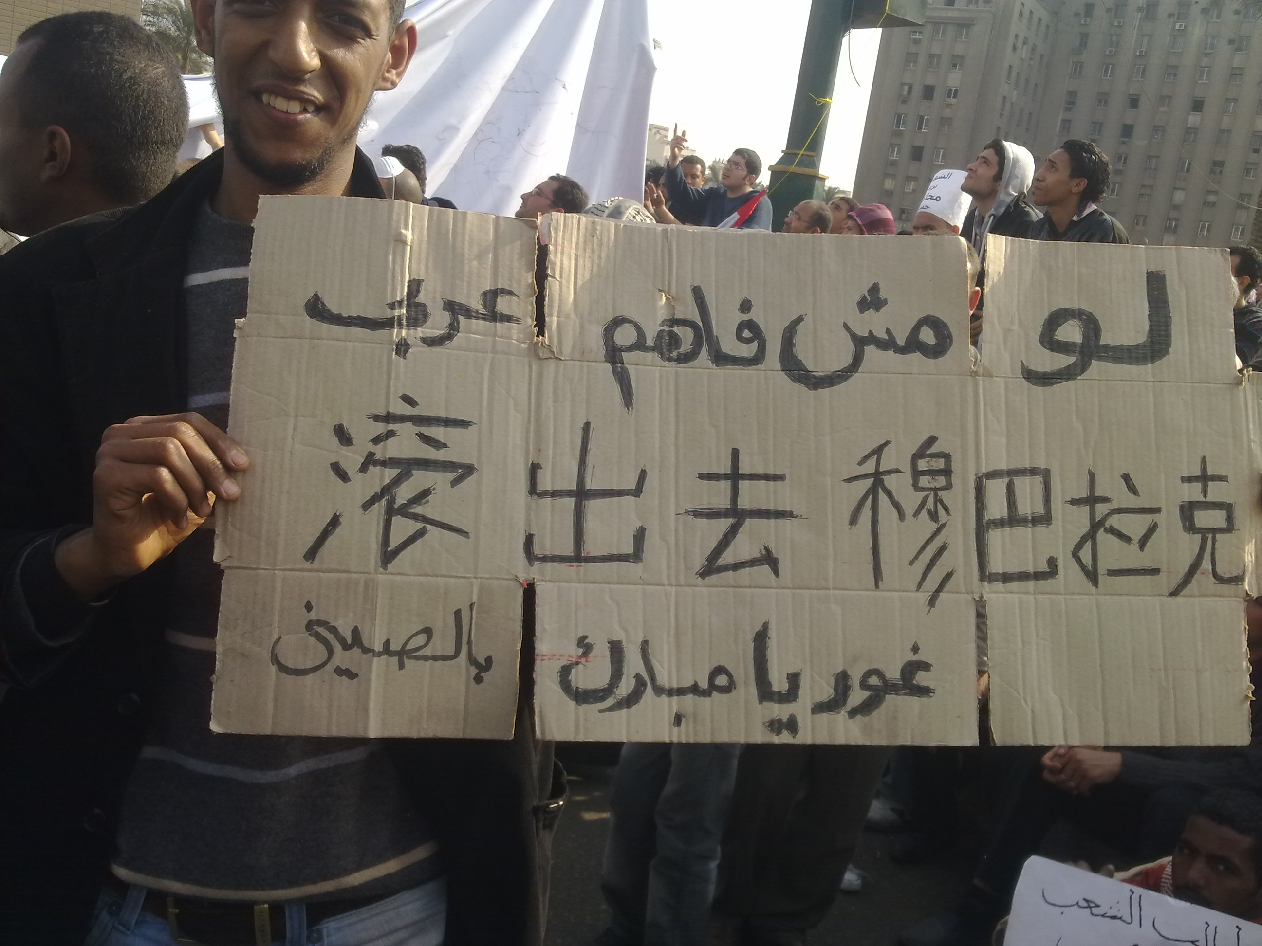 A young person during the 2011 Egyptian protests in Midan El-Tahrir carrying a cardboard saying "If you can't understand Arabic, here it is in Chinese. Leave Mubarak"